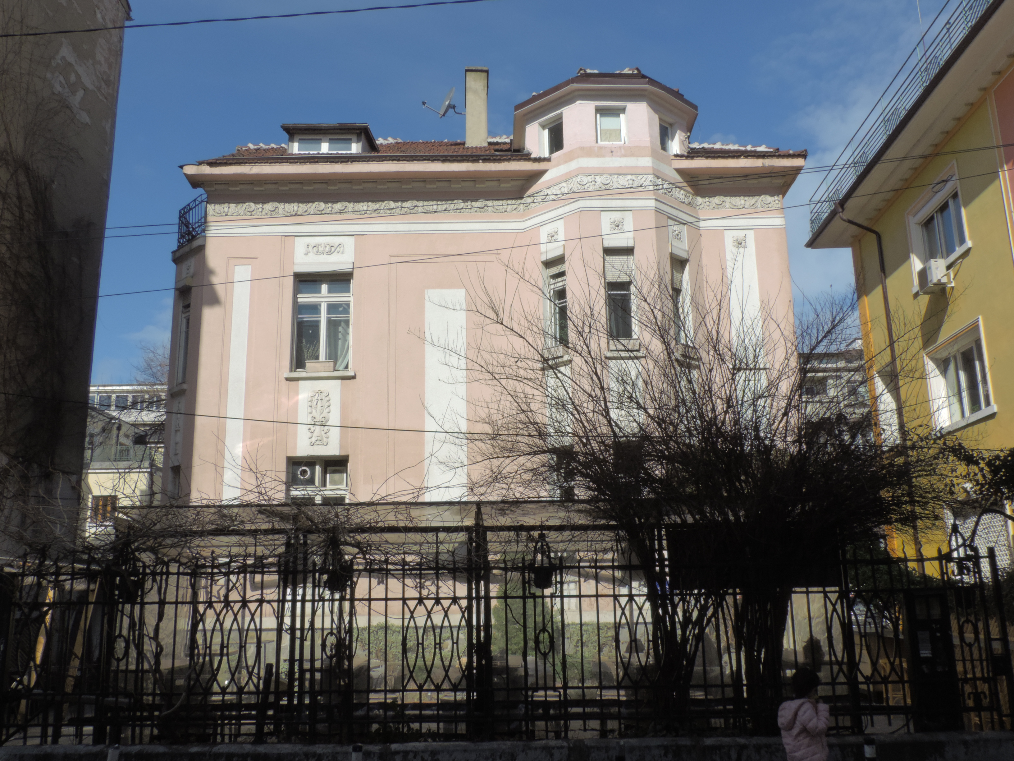 The house on 12 Tsar Ivan Shishman Str., Sofia, where the Bulgarian politician Nikola Petkov lived from July 1944 to June 1947.